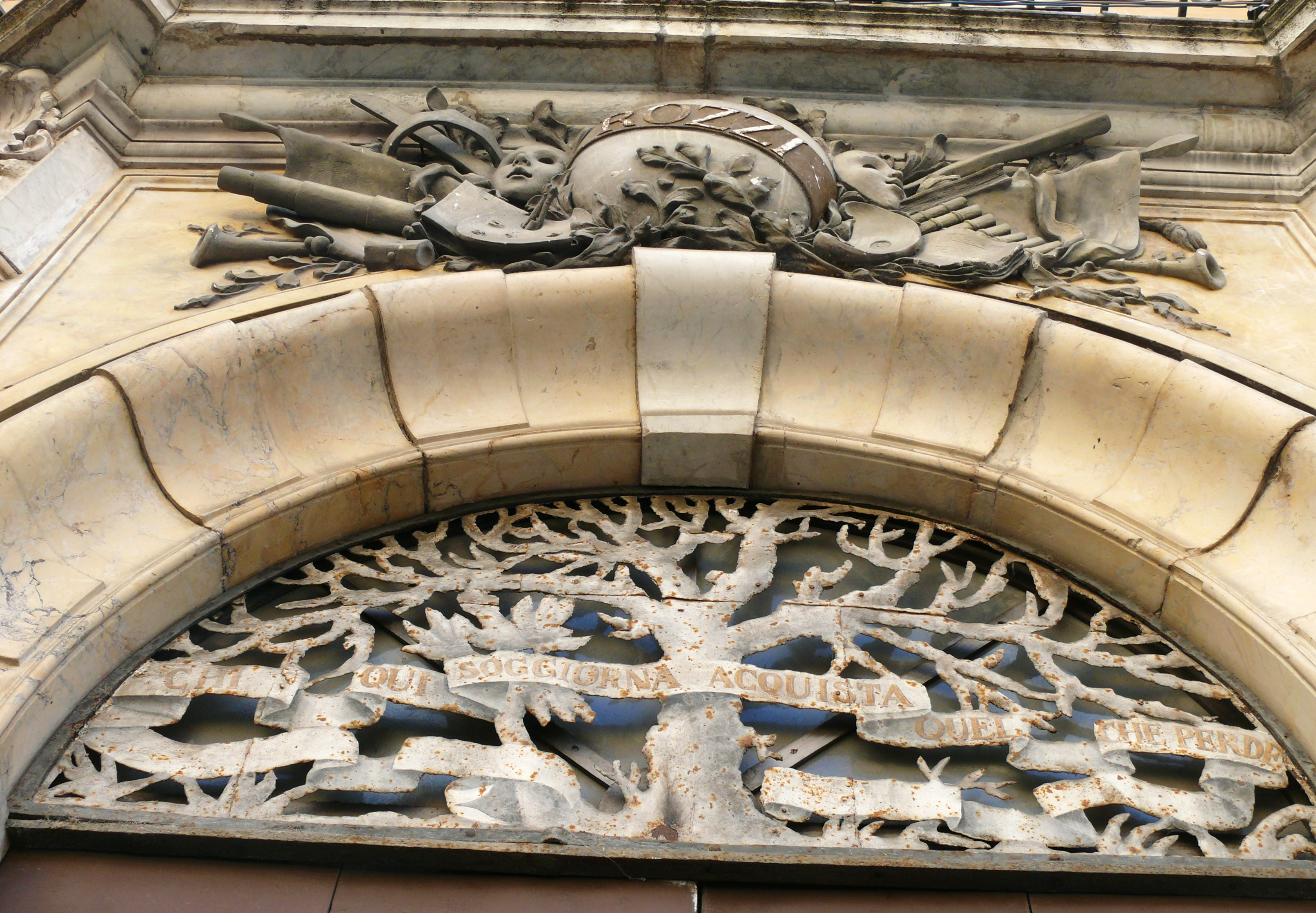 Gate wiyh crest of Teatro dei Rozzi in Siena Italy